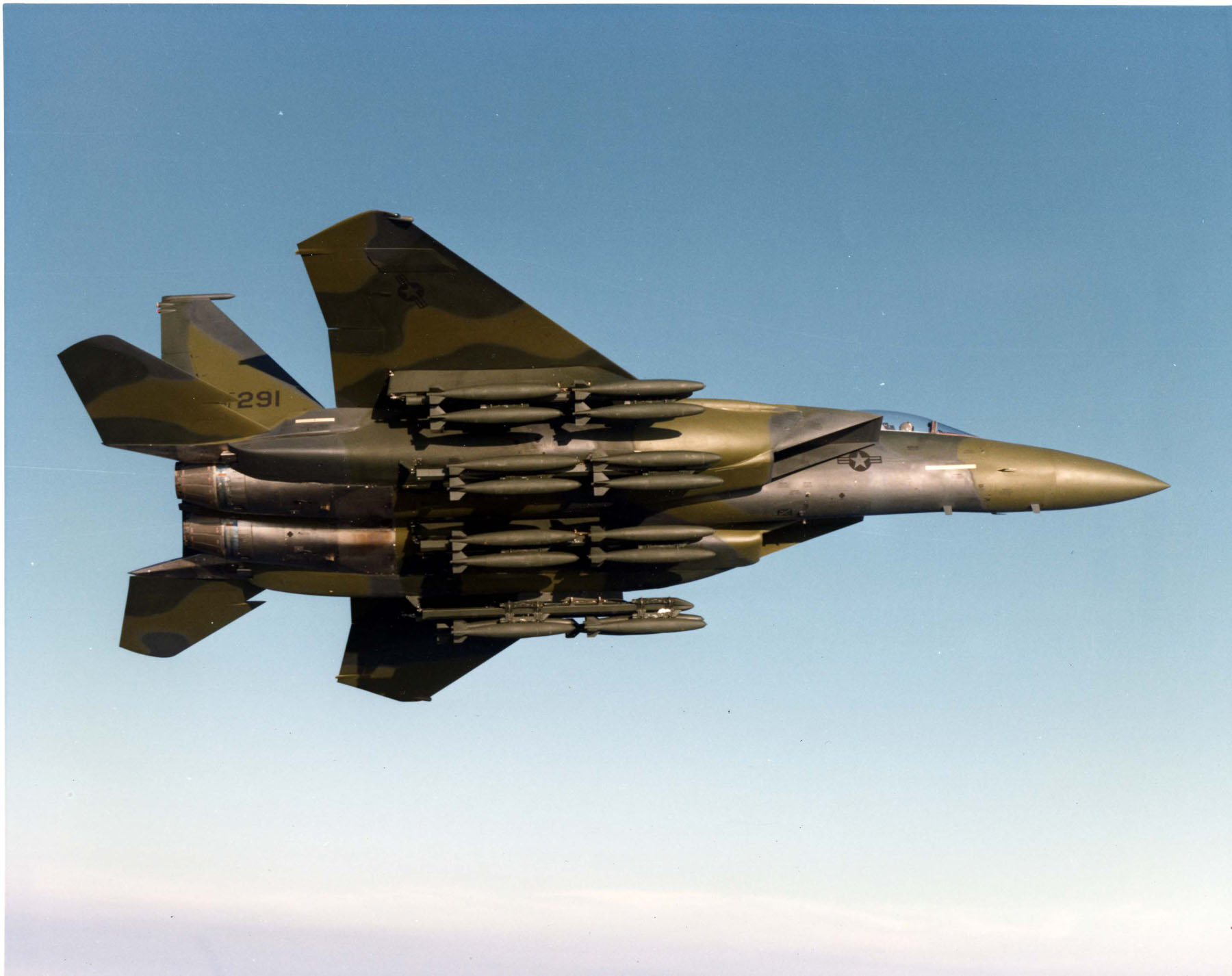 McDonnell Douglas F-15E Prototype